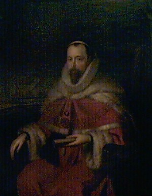 Portrait of Sir Edward Coke (1552-1634)